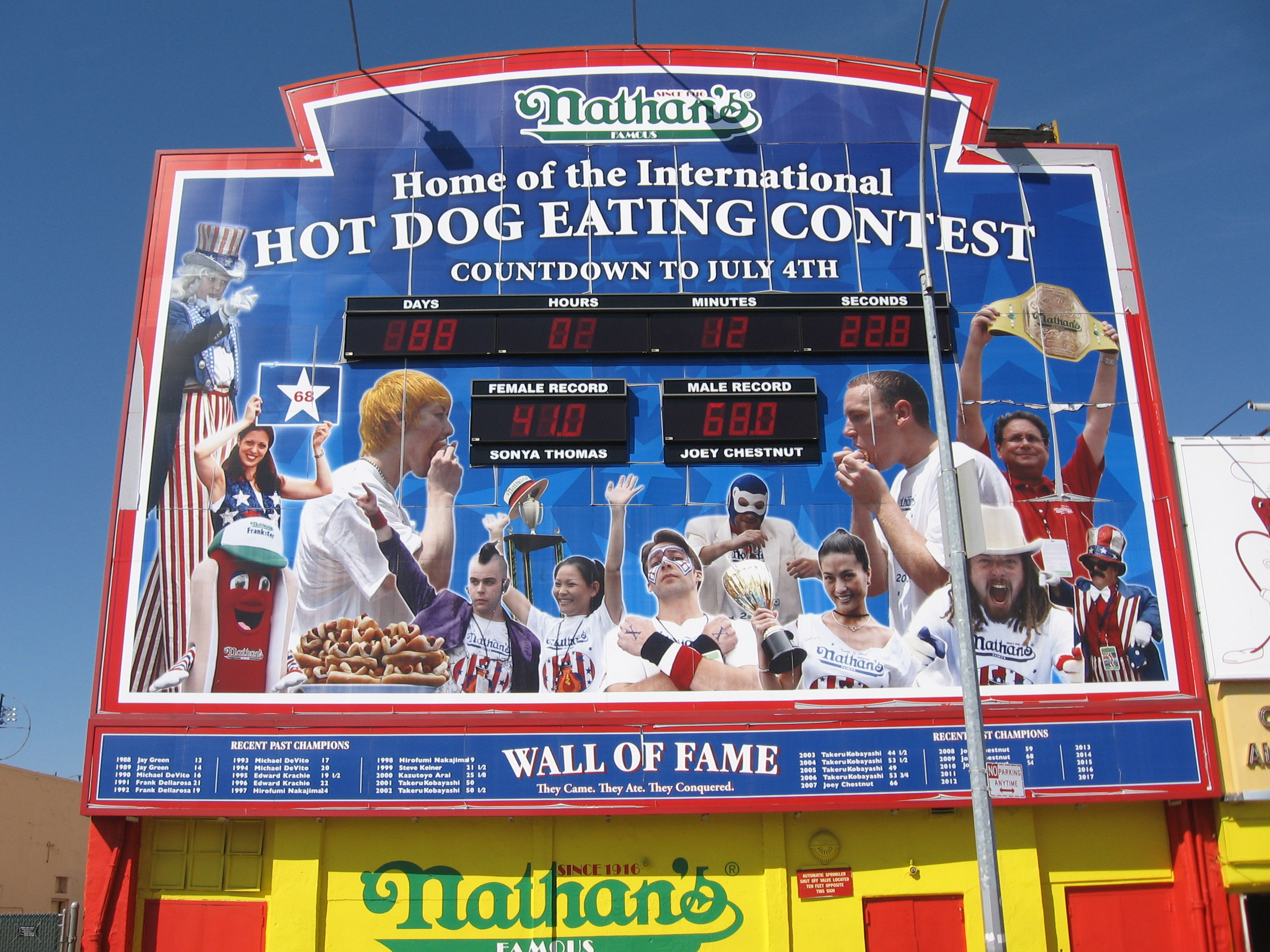 Nathan's Hot Dog Eating Contest countdown clock